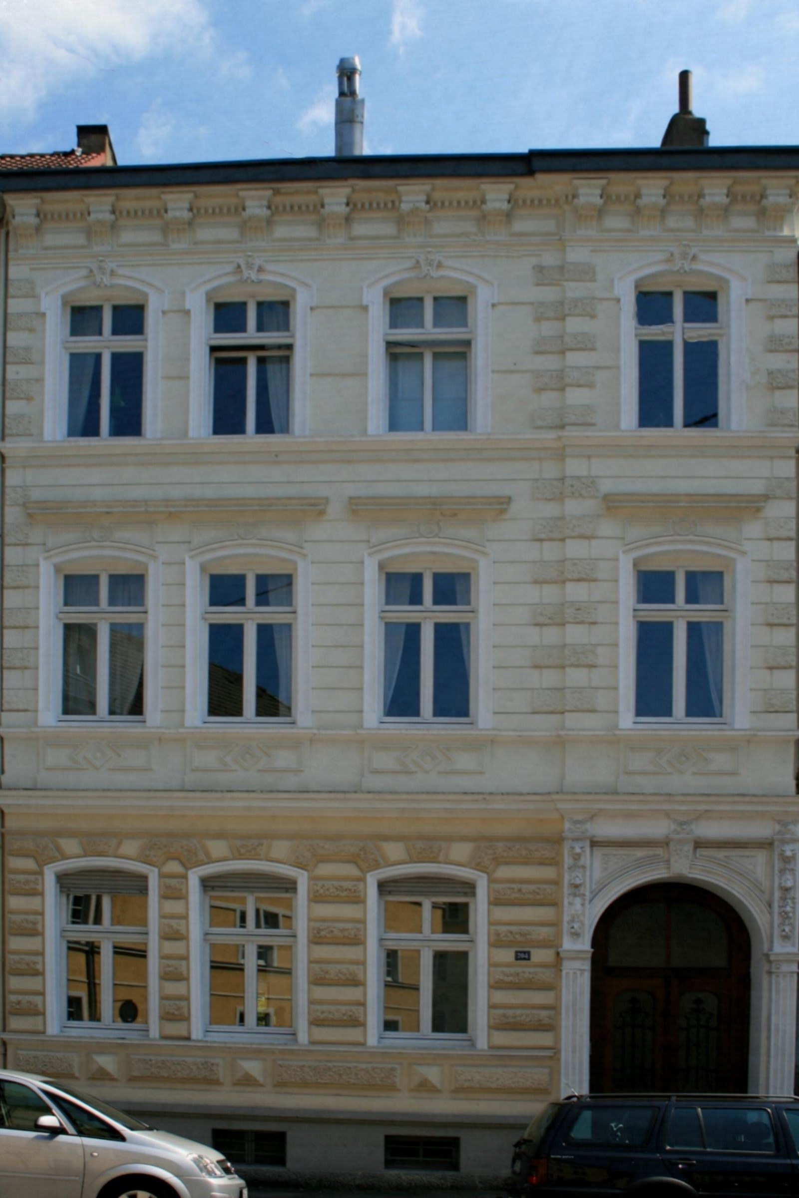 Cultural heritage monument No. R 073 in Mönchengladbach